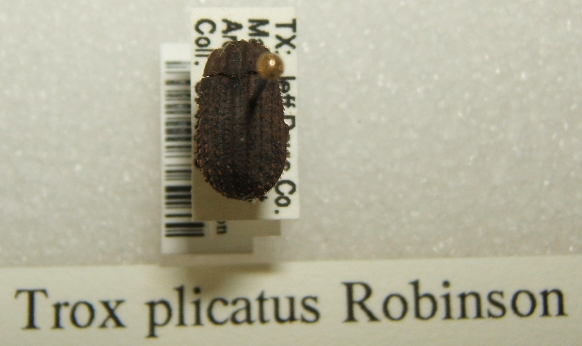 Trox plicatus adult taken by Shawn Hanrahan at the Texas A&M University Insect Collection in College Station, Texas. Cropped version: Trox plicatus sjh.cropped.jpg